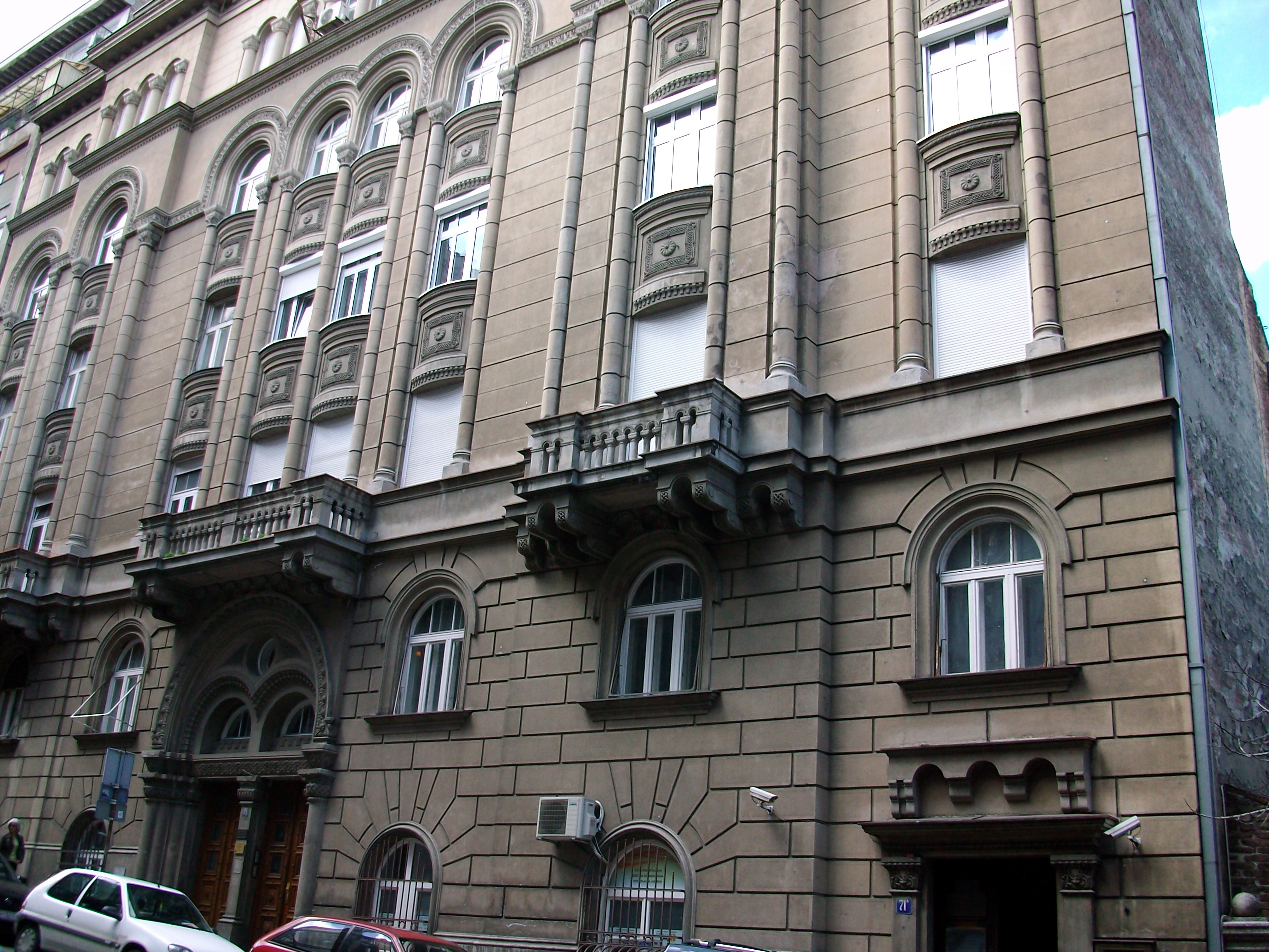 House of Jewish historical museum